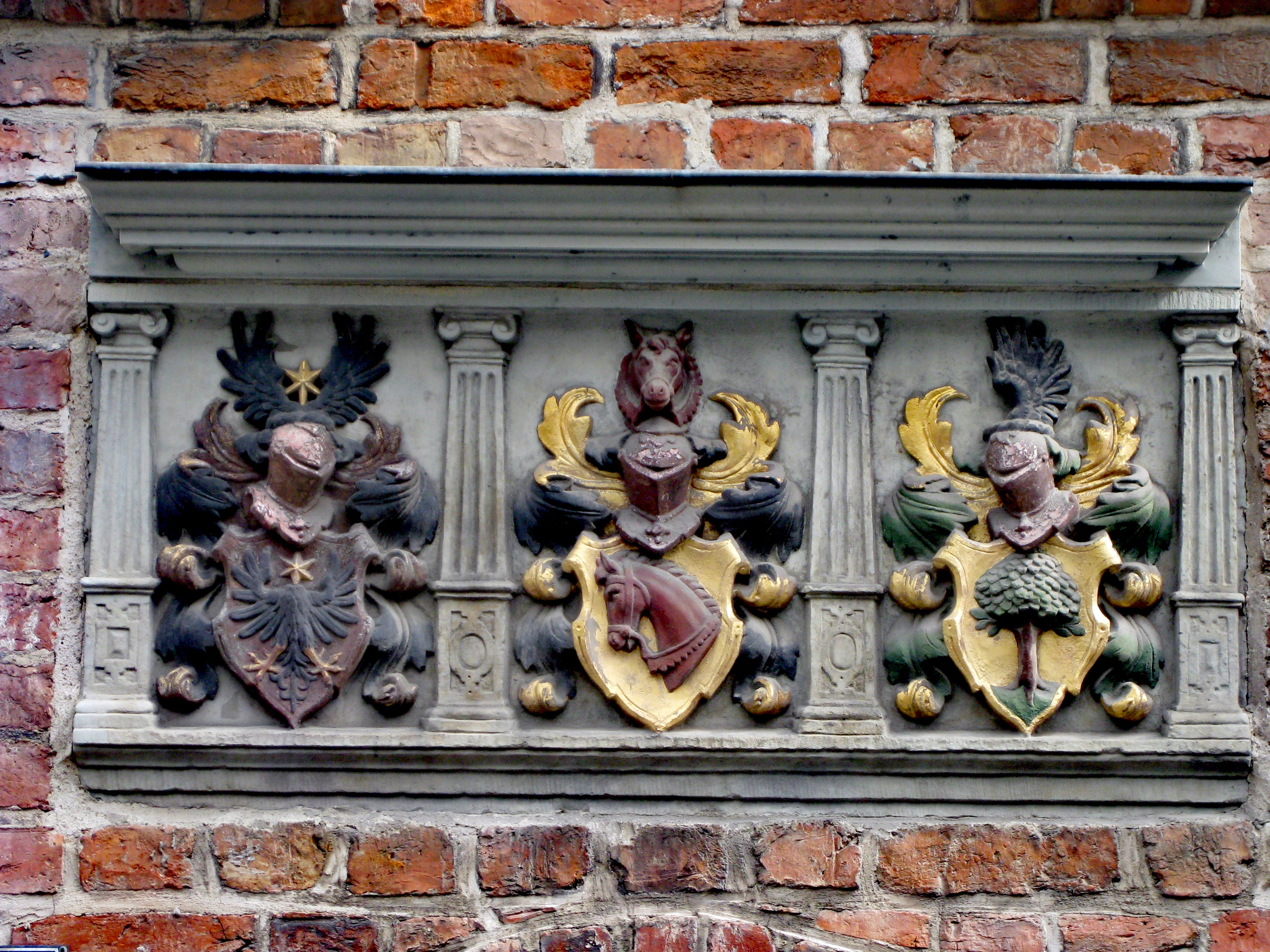 Coats of arms of the Lübeck families Lunte, Bruskow ans Warmböke.